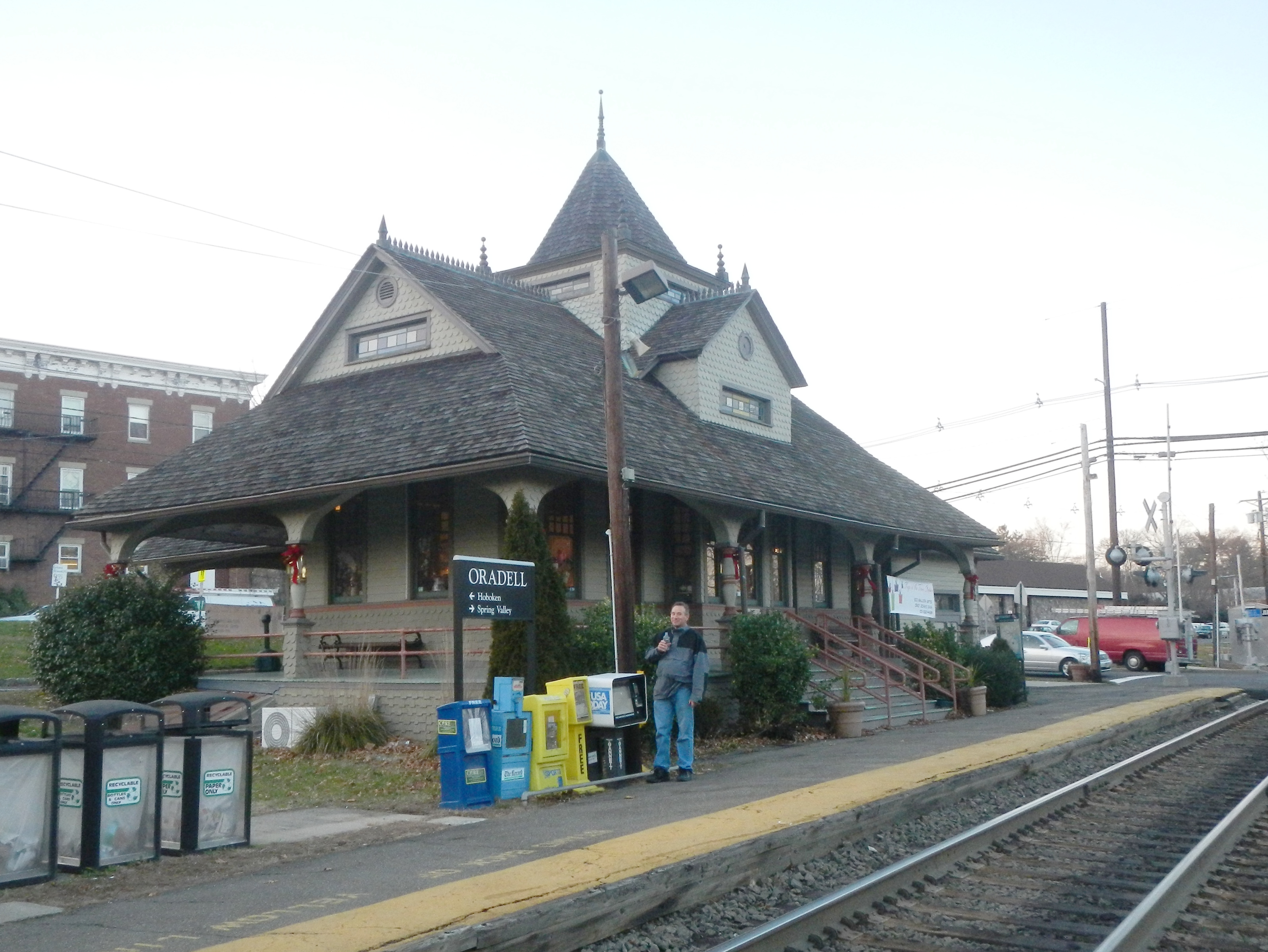 Looking north across track at station shortly after dusk.